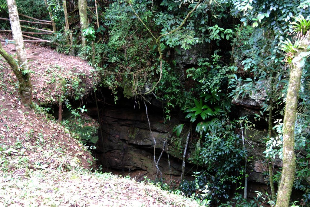 The entrance to Haiton del Guaratato in the Sierra de San Luis in Falcón State, Venezuela in December 2009. The entrance shaft is 242 metres deep in three stages, the first being 168 metres